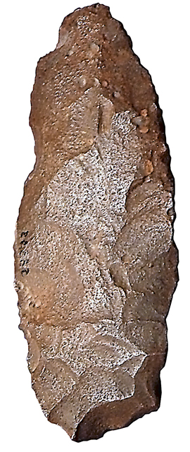 African biface artifact dated in Late Stone Age period